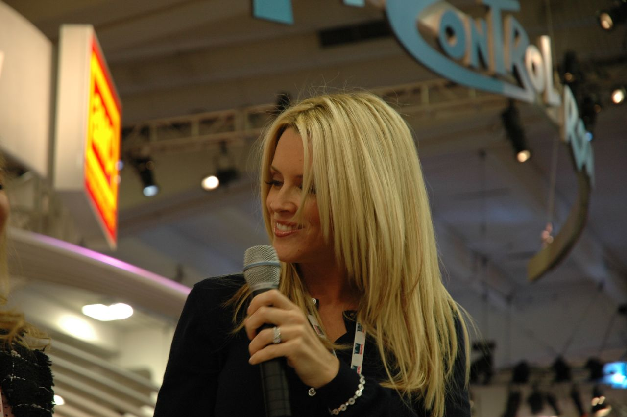 Jenny McCarthy